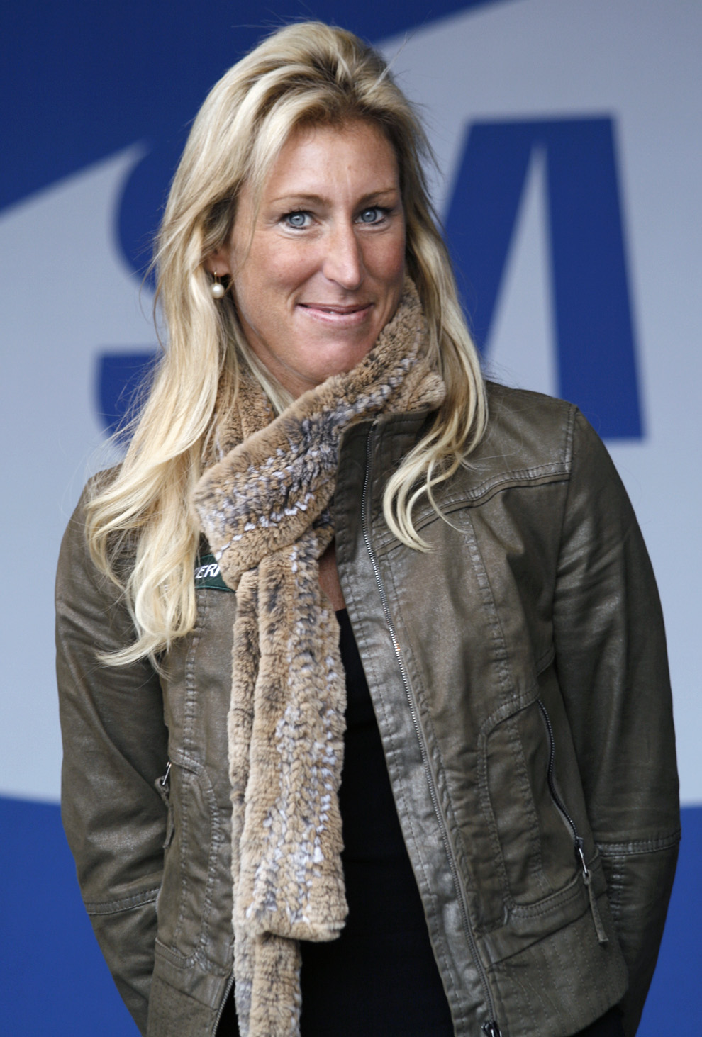 Austrian athlete Stephanie Graf ("Day of Sports", Heldenplatz, Vienna).